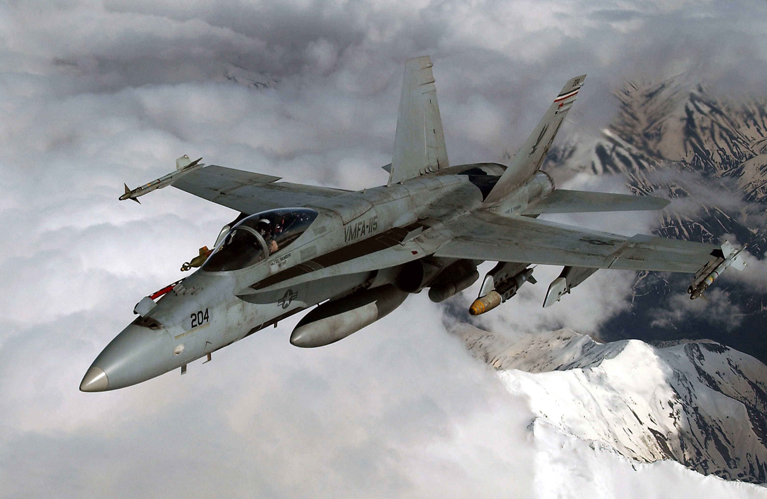 From the Depart of Defense image search website - Defense Visual Information Center. Picture comes up if you search for MCAS Beaufort ID: DFSD0506271 Service Depicted: Marines 030417F6809H008 Aerial of a US Marine Corps (USMC) F/A-18 Hornet, Marine Fighter Attack Squadron-115 (VMFA-115), Silver Eagles, Beaufort, South Carolina (SC), armed with AIM-9 Sidewinder missiles (wing tips), a GBU-12 (left), and an MK-83 1,000 lbs Joint Direct Attack Munition (JDAM) during Operation IRAQI FREEDOM. Camera Operator: TSGT ROBERT J. HORSTMAN, USAF Date Shot: 17 April 2003